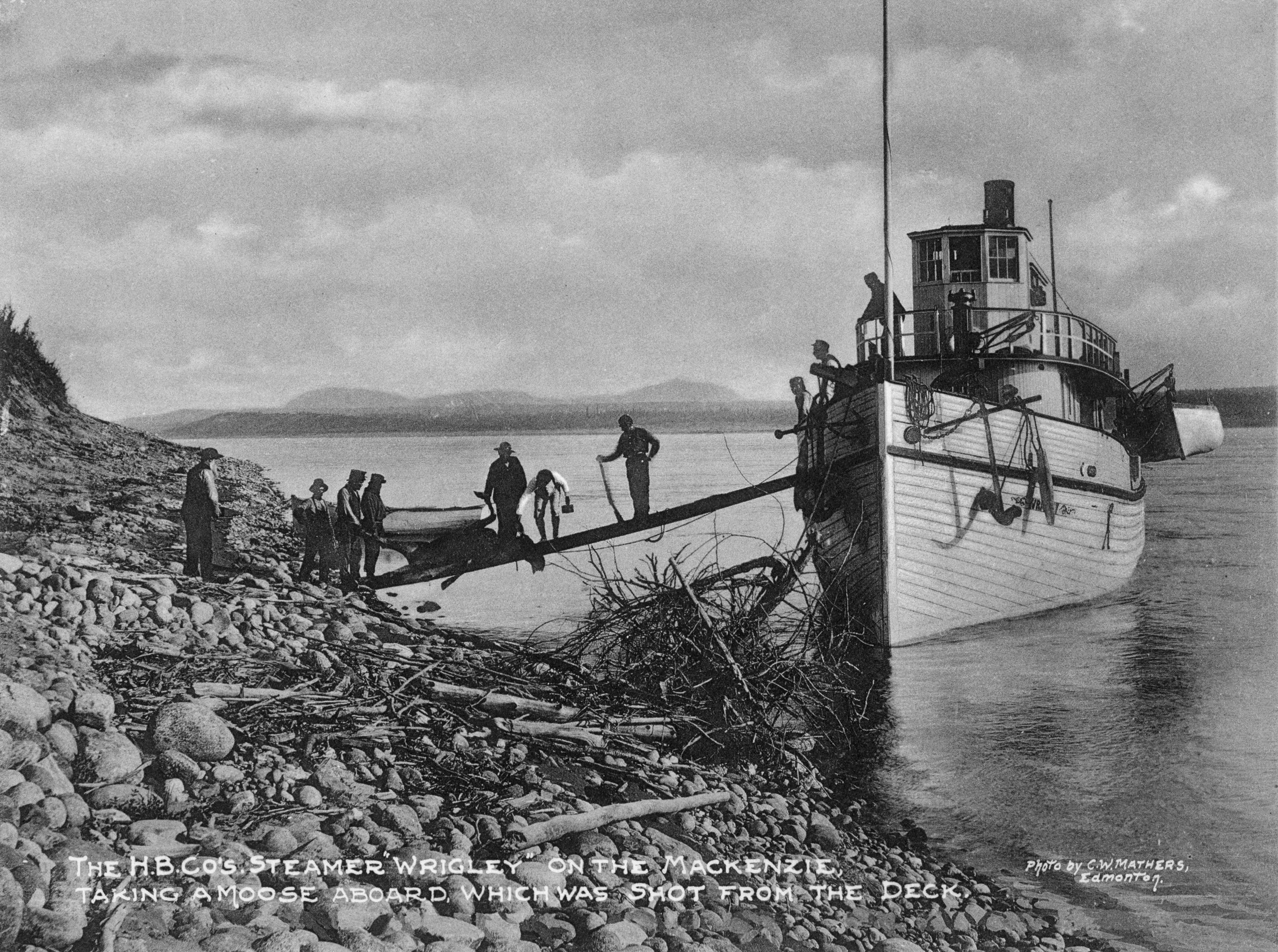 The HBC Wrigley on the Mackenzie River in 1901. Original caption: "Caption: The H.B. Co. steamer "Wrigley" on the Mackenzie, taking a moose aboard, which was shot from the deck. [1901] 1463.13 Kb 10.00 x 7.45 inches Credit: C.W. Mathers/NWT Archives/N-1979-058-0009"